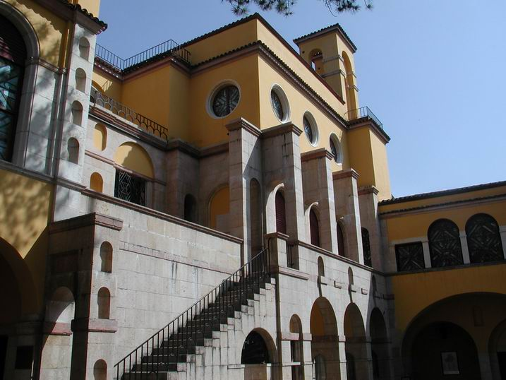 Vittoriale, house of Gabriele D'Annunzio